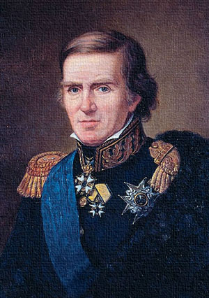 Count Baltzar Bogislaus von Platen (1766-1829), a Swedish naval officer and statesman, born May 29, 1766.